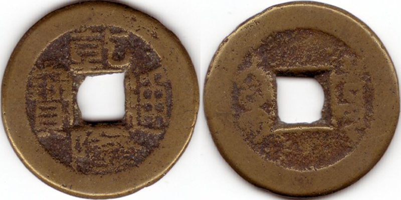 Suposed Chinese old coin Scan from own collection